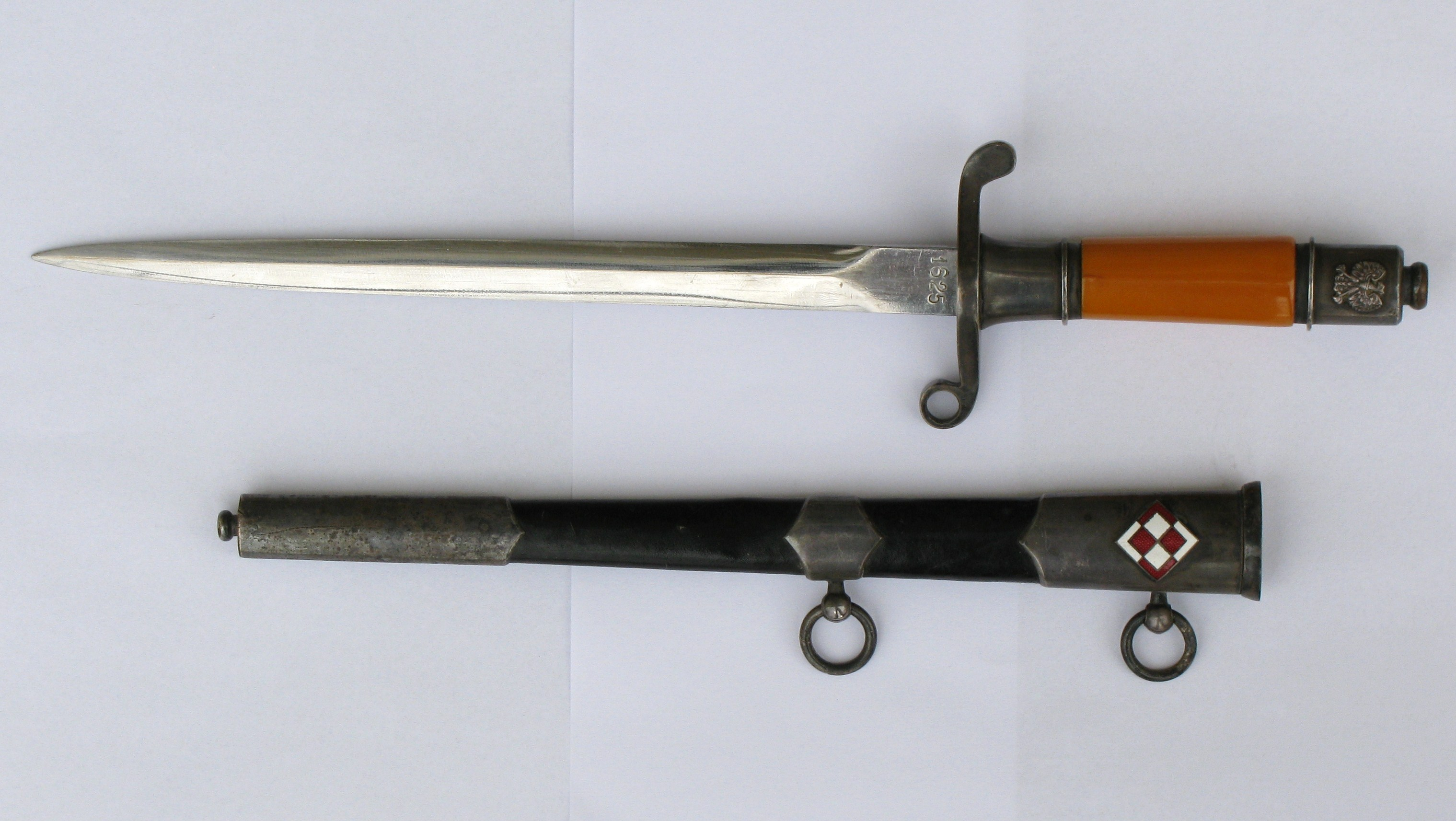 Cutlass of People's Army of Poland Air Force officer. Total length 37 cm.